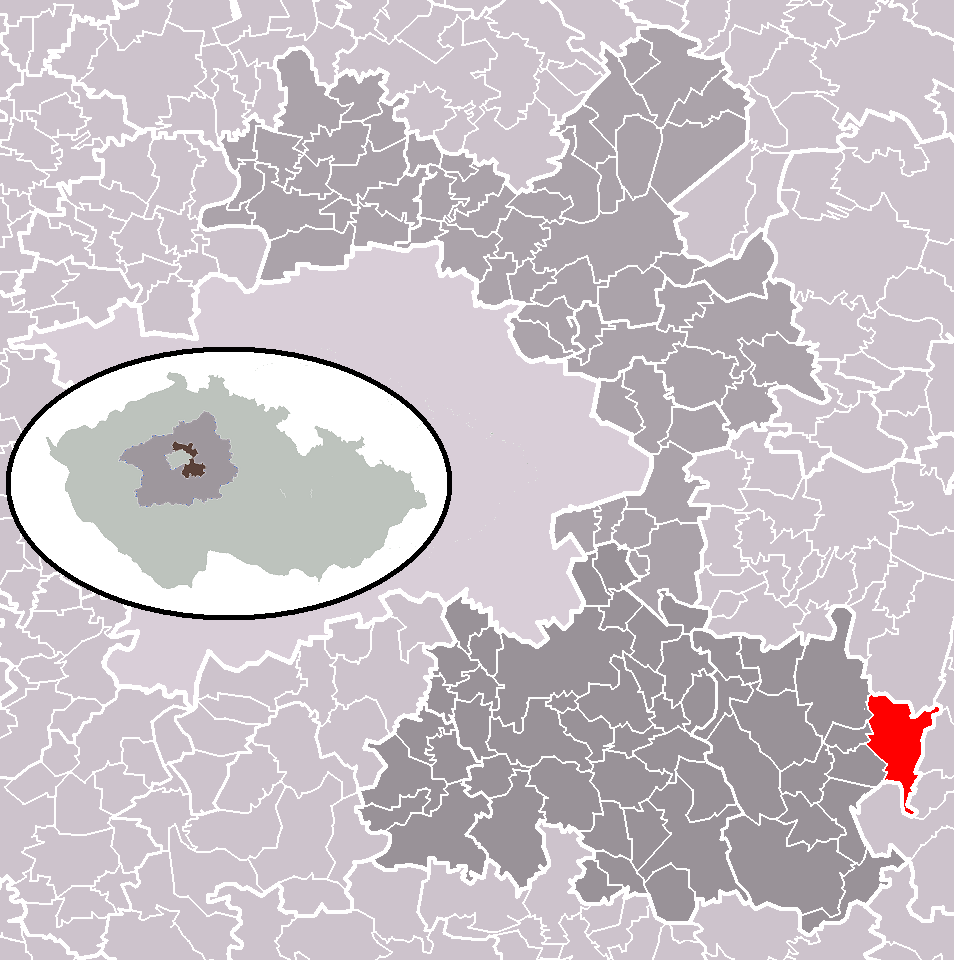 Location of Oleška municipality within Prague-East District and administrative area of Říčany as a Municipality with Extended Competence.